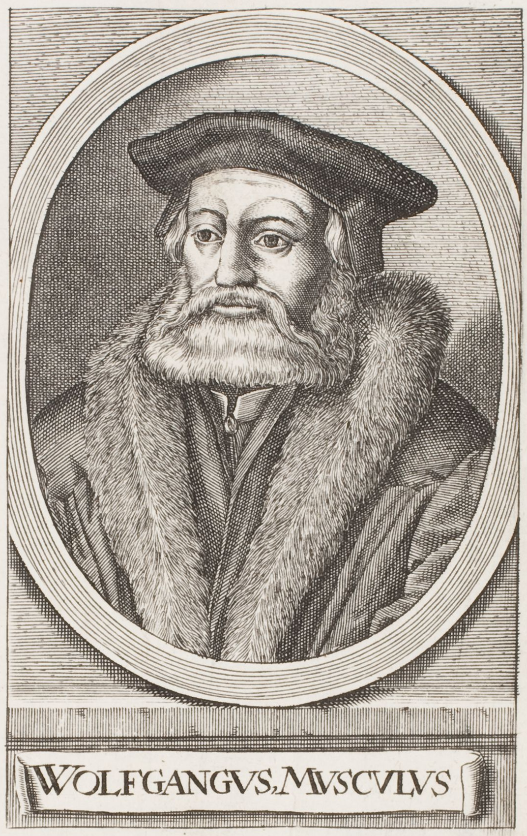 Portrait of Wolfgang Musculus